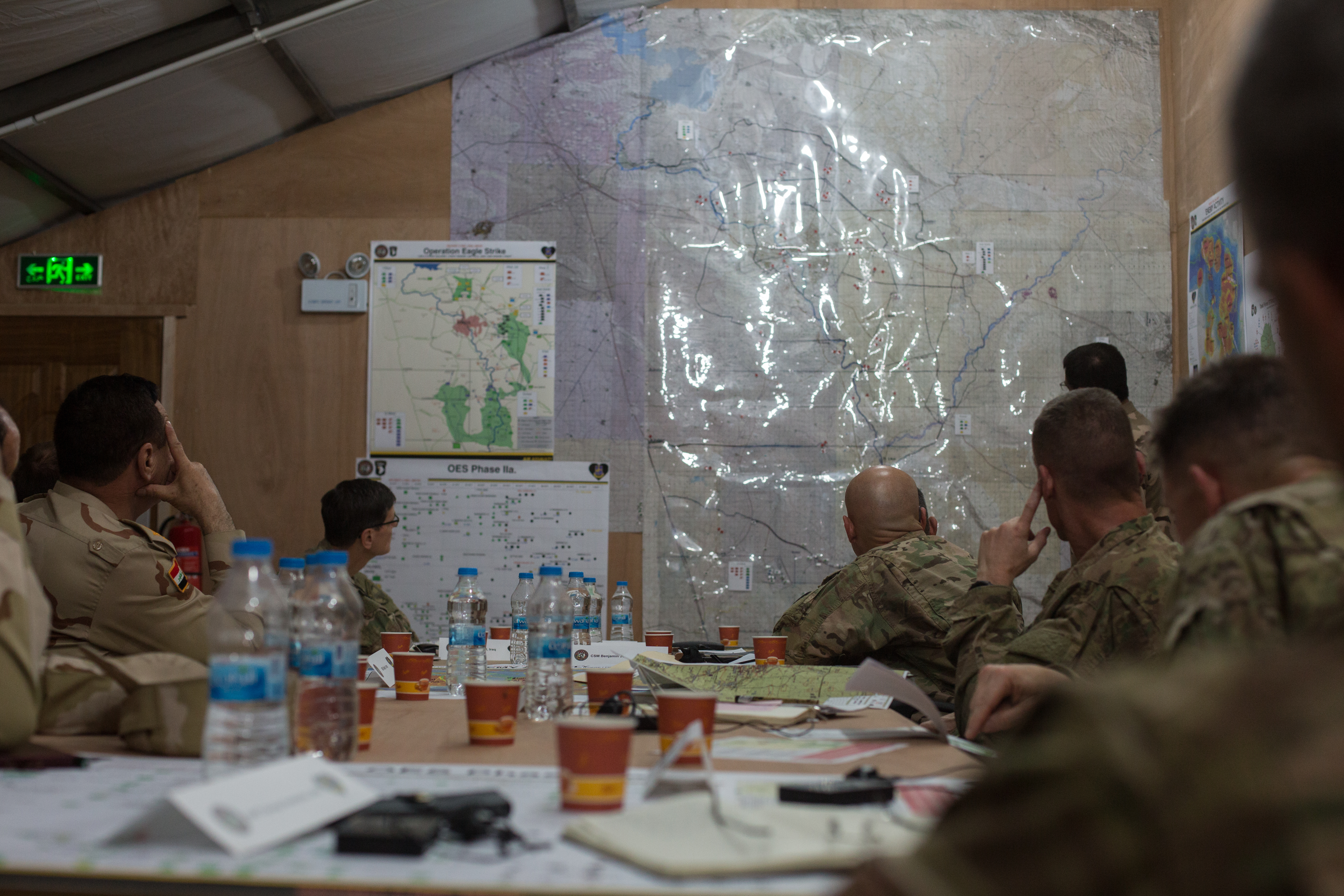 U.S. Army leaders from the United States Central Command discuss battle plans with Iraqi security forces at Qayyarah West Airfield, Iraq, Oct. 25, 2016. More than 60 coalition partners have committed themselves to the goals of eliminating the threat posed by the Islamic State of Iraq and the Levant and have contributed in various capacities to the effort to combat ISIL in Iraq, the region and beyond. (U.S. Army photo by Spc. Christopher Brecht)